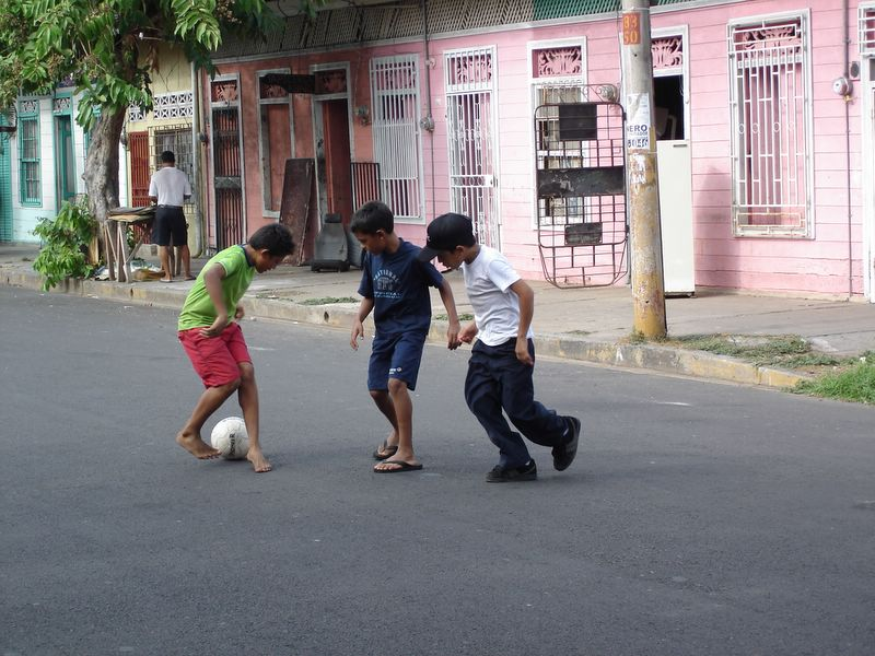 Children playing soccer on the street, Puntarenas, Costa Rica.